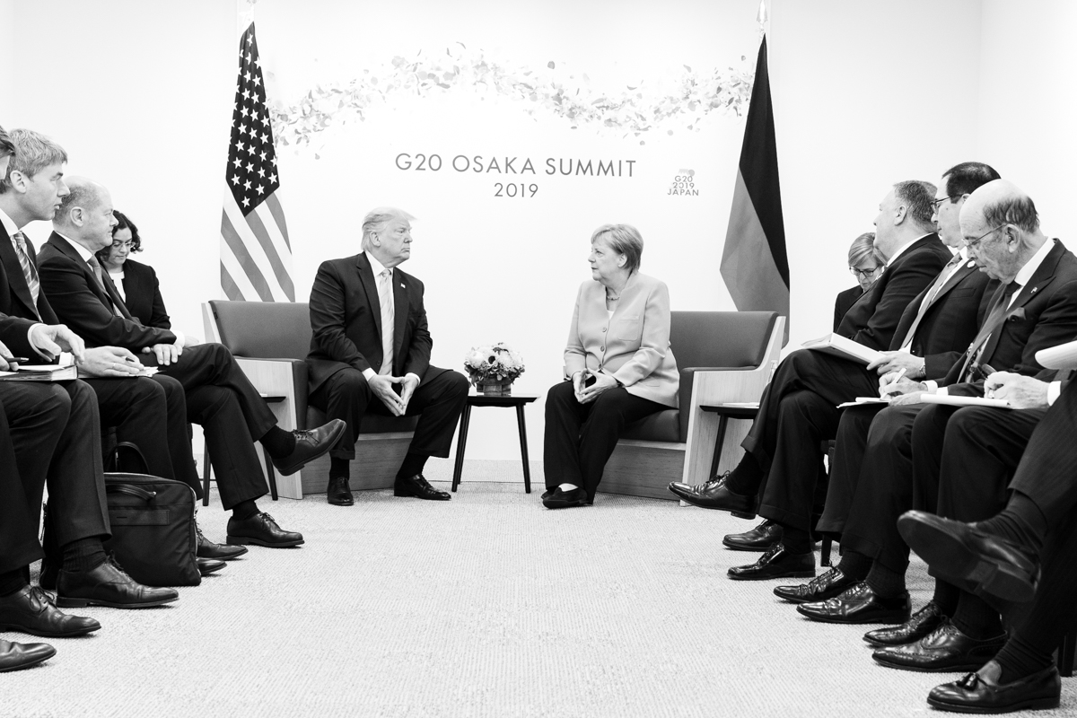 President Donald J. Trump participates in a bilateral meeting with the Chancellor of the Federal Republic of Germany Angela Merkel at the G20 Japan Summit Friday, June 28, 2019, in Osaka, Japan. (Official White House Photo by Shealah Craighead)